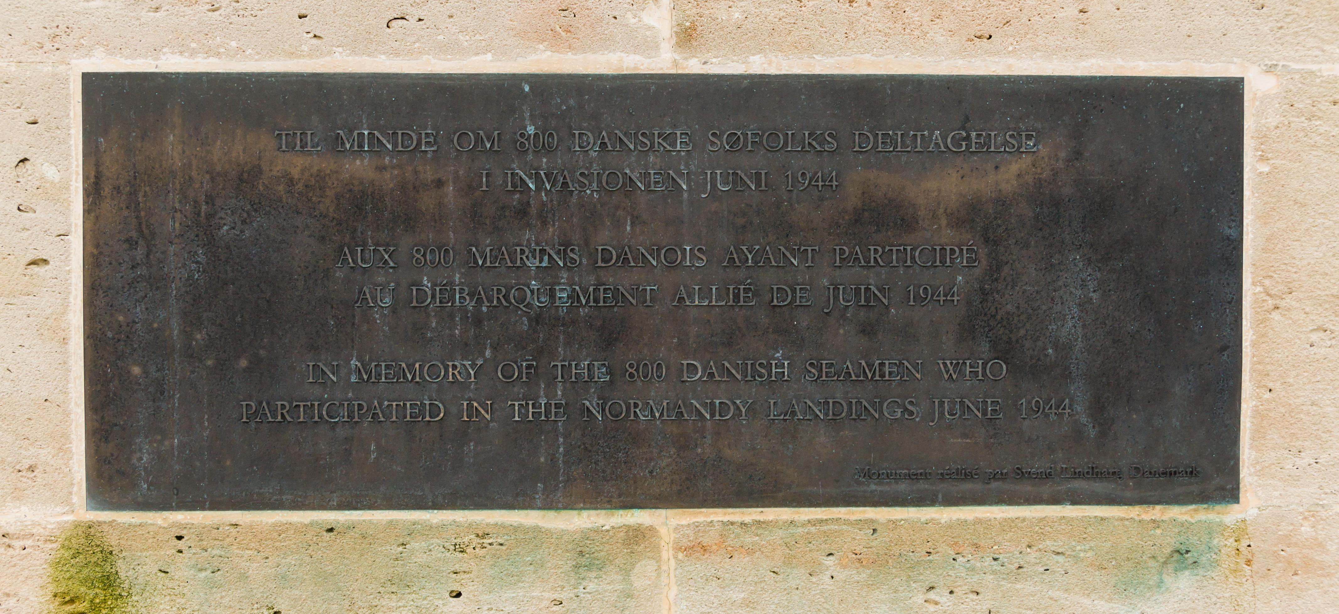 A tribute plaque to the danish seamen, 1944, road to Utah Beach, Manche, Normandy, France.